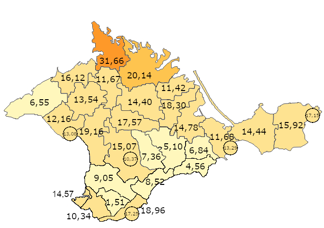 Ukrainians in Crimea according to 1939 census.